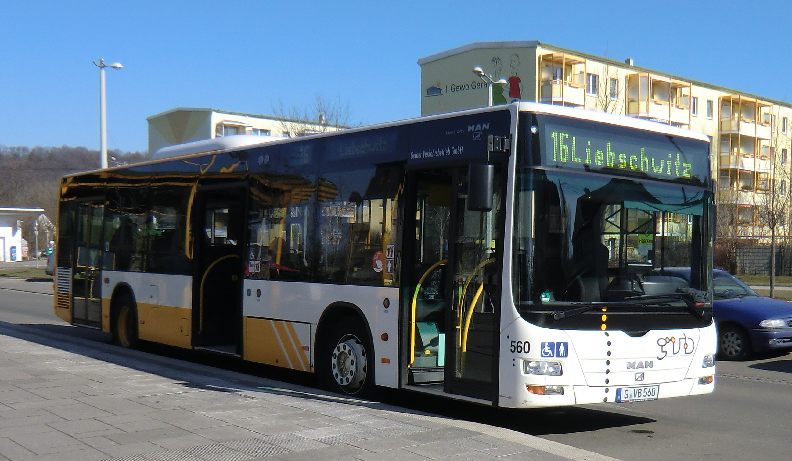 MAN autobus on route 16 in Gera, Thuringia (Germany), at the tram terminal in Zwötzen